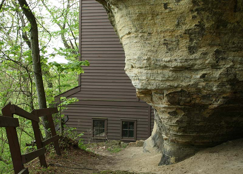 Tower Hill State Park, Wisconsin. This is the base of the shot tower, where lead shot was made.